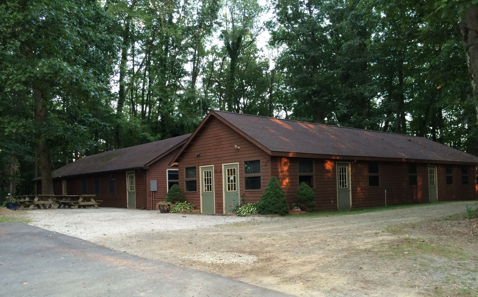 Sanctuary Lake laboratory site at the University of Pittsburgh's Pymatuning Laboratory of Ecology.